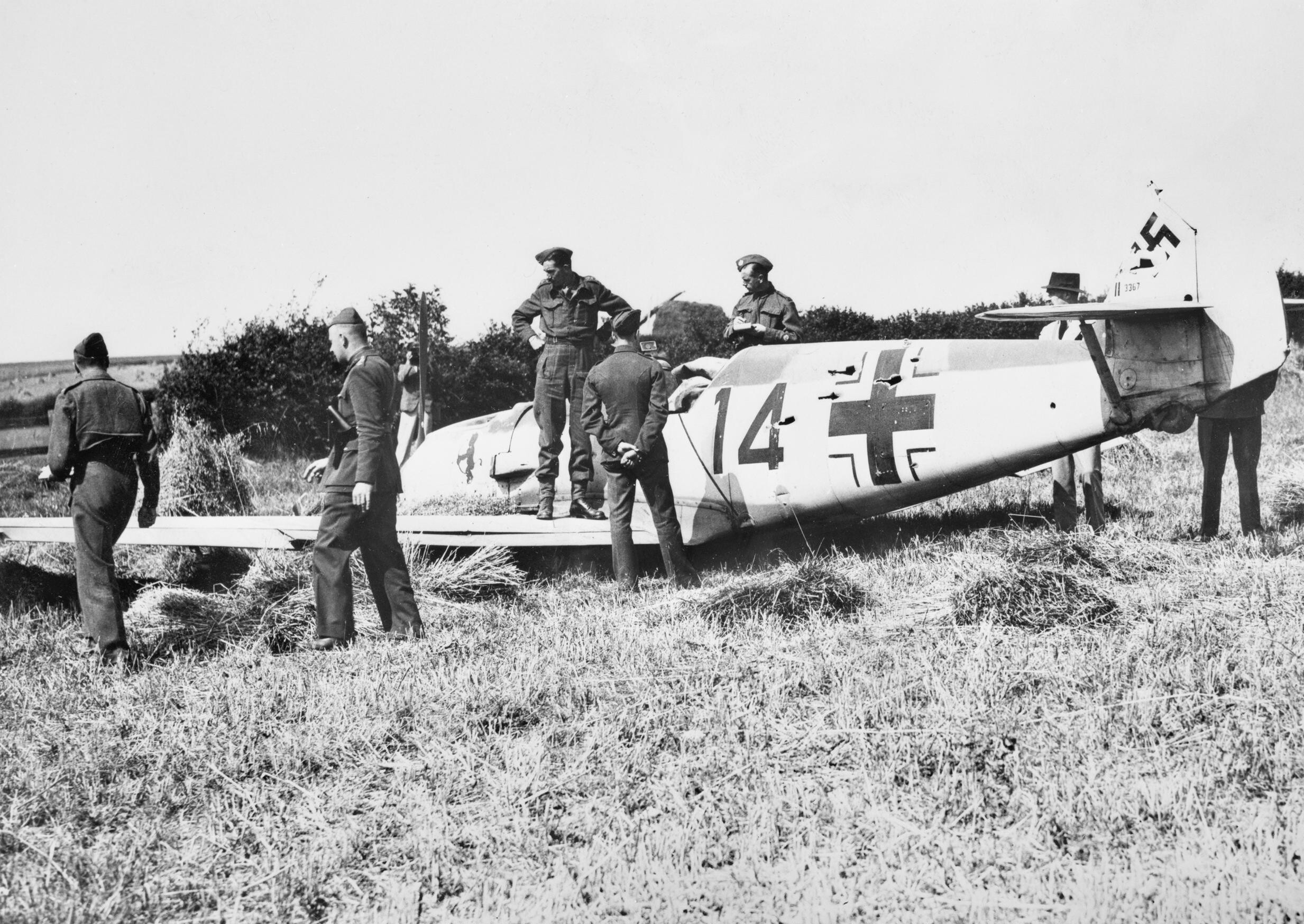 The Battle of Britain 1940 Army officers inspect the wreckage of Messerschmitt Bf 109E-1 (W.Nr. 3367) "Red 14" of 2./JG52, which crash-landed in a wheatfield at Mays Farm, Selmeston, near Lewes in Sussex, 12 August 1940. Its pilot, Unteroffizier Leo Zaunbrecher, was captured.